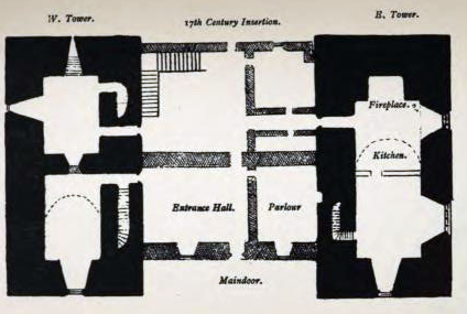 Plan of Howgill Castle, cleaned up and trimmed